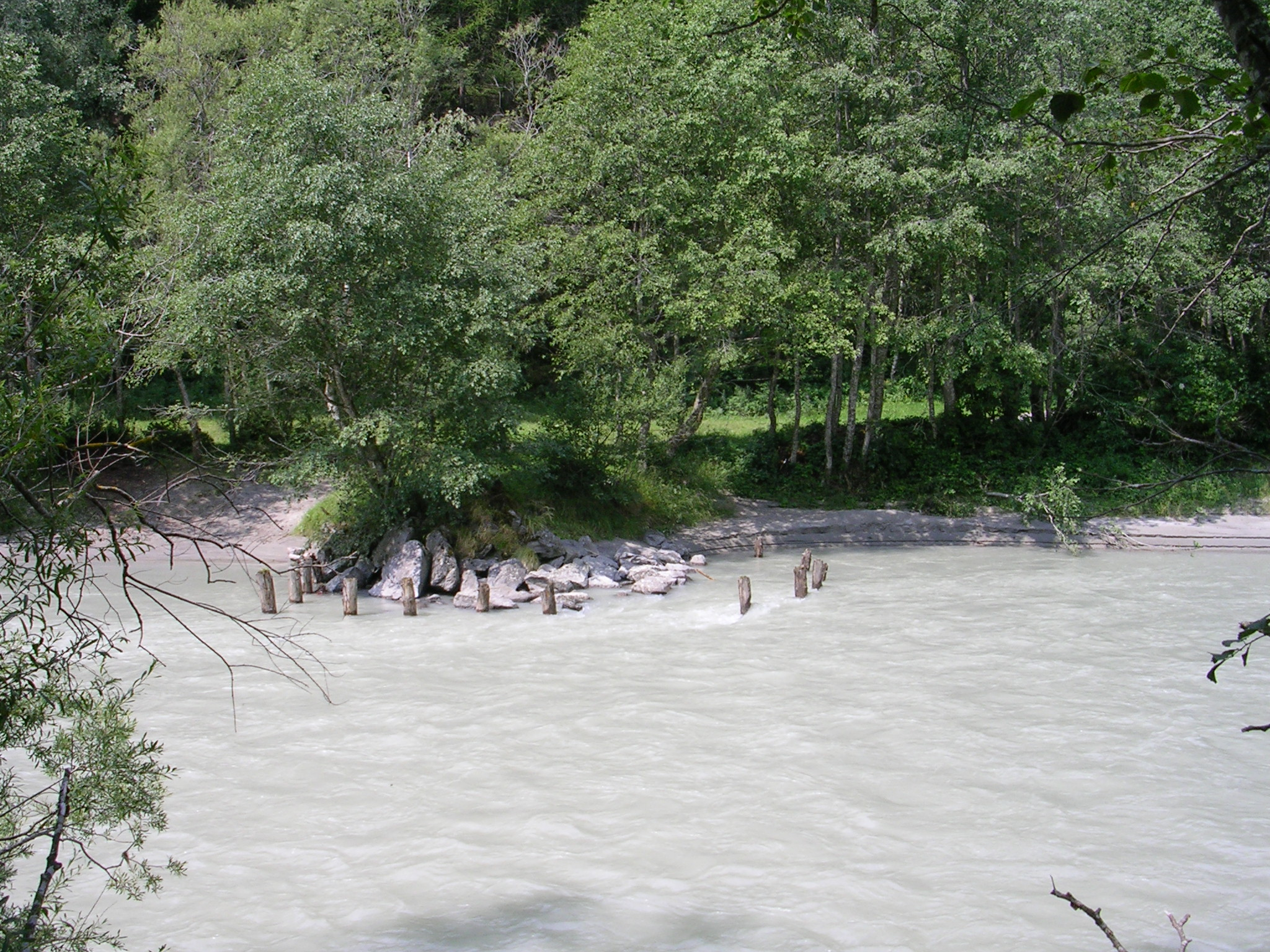 Riverside of the river Tauernbach